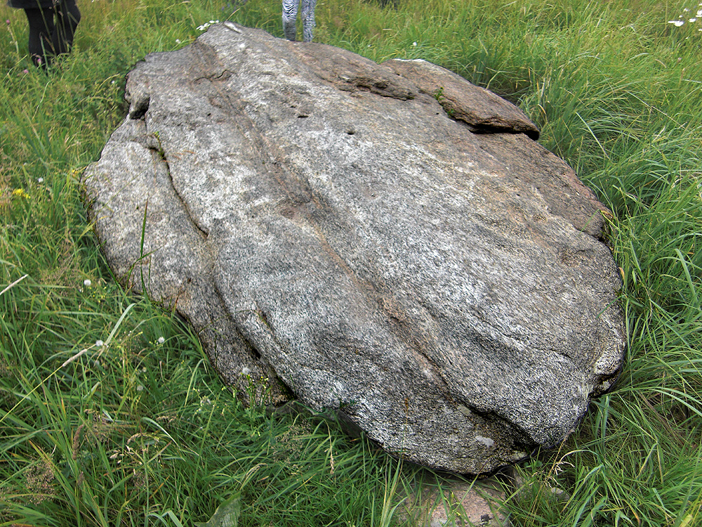 The vitrified capstone of the Slutarp Dolmen. Photo taken the summer 2009. There are around 100 cup marks and some other simple rock carvings on the capstone. The capstone is of mica schist and is thus very fragile. The Slutarp dolmen is a megalithic tomb radiocarbon-dated to 3350-3100 BC and situated northwest of Slutarp, 10 km south of Falköping, in the Falbygden area, Västergötland, Sweden.